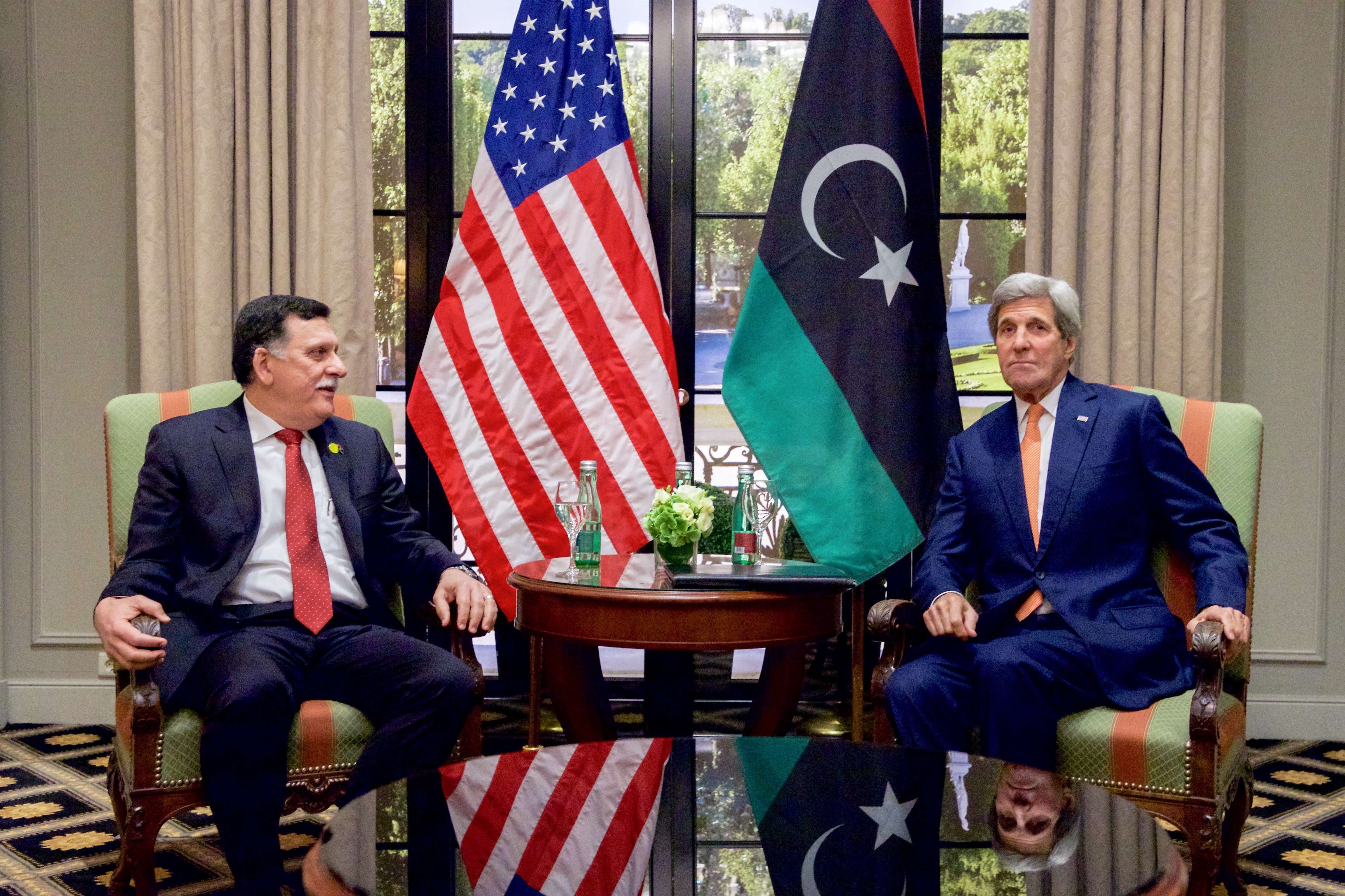 U.S. Secretary of State John Kerry sits with Libyan Prime Minister Fayez al-Sarraj at the Bristol Hotel in Vienna, Austria, on May 16, 2016, before a series of multilateral meetings in the Austrian capital focused on Libya, Syria, and other regional hotspots. [State Department photo/ Public Domain]